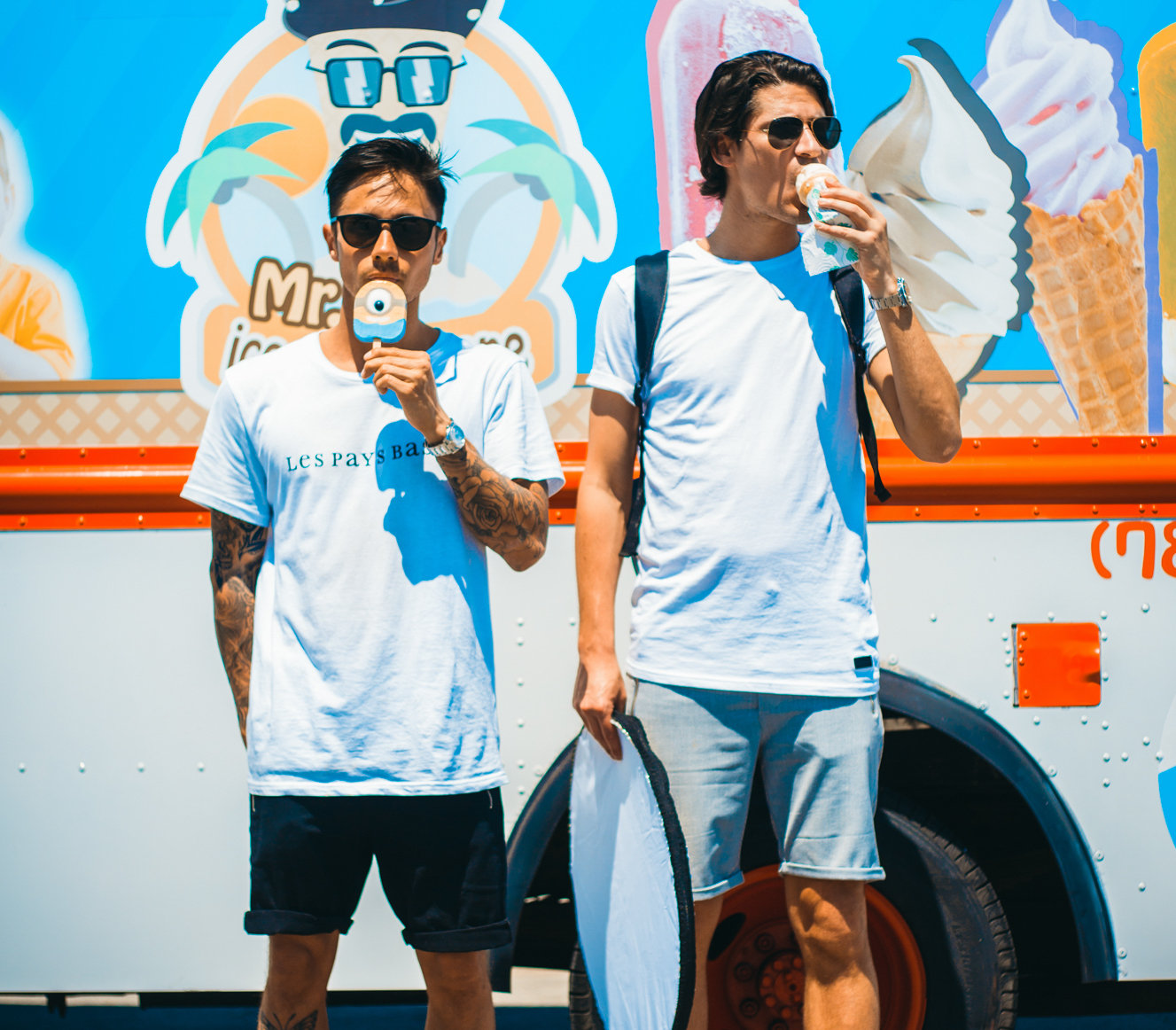 Bassjackers, Marlon (left) and Ralph (right)